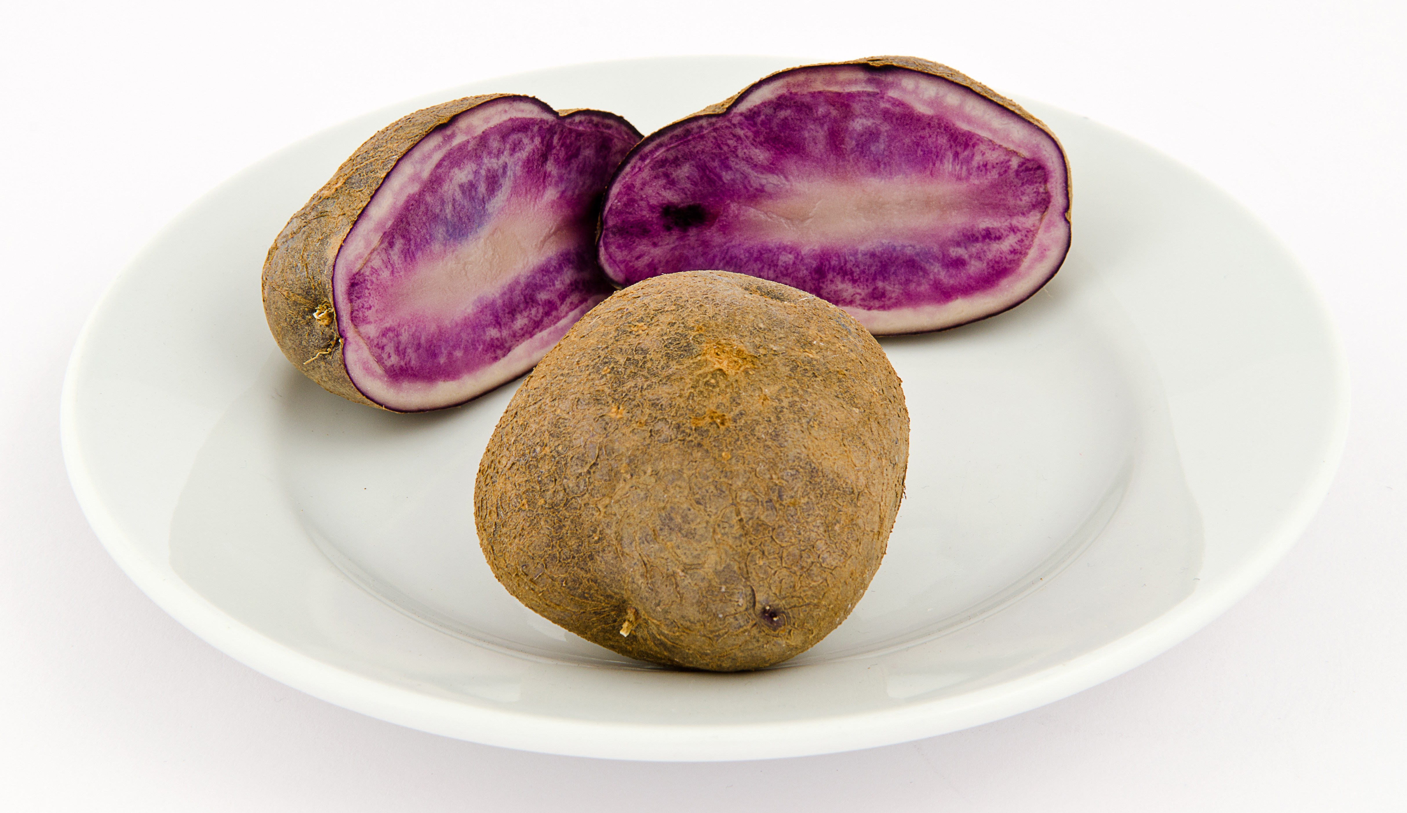 purple fleshy potatoes, variety Salad Blue - diameter of the plate ca. 15 cm